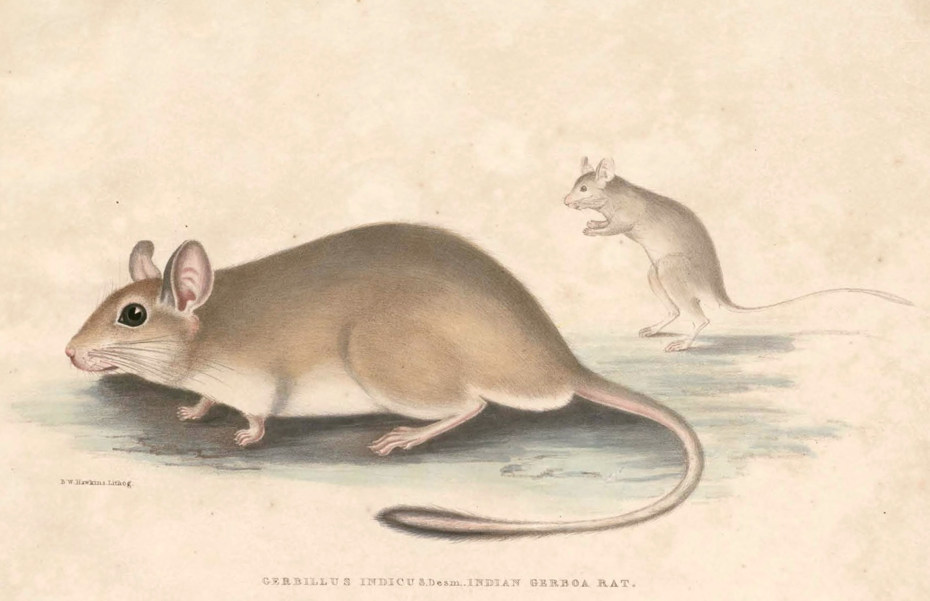 « Gerbillus indicus » = Tatera indica (Indian gerbil)